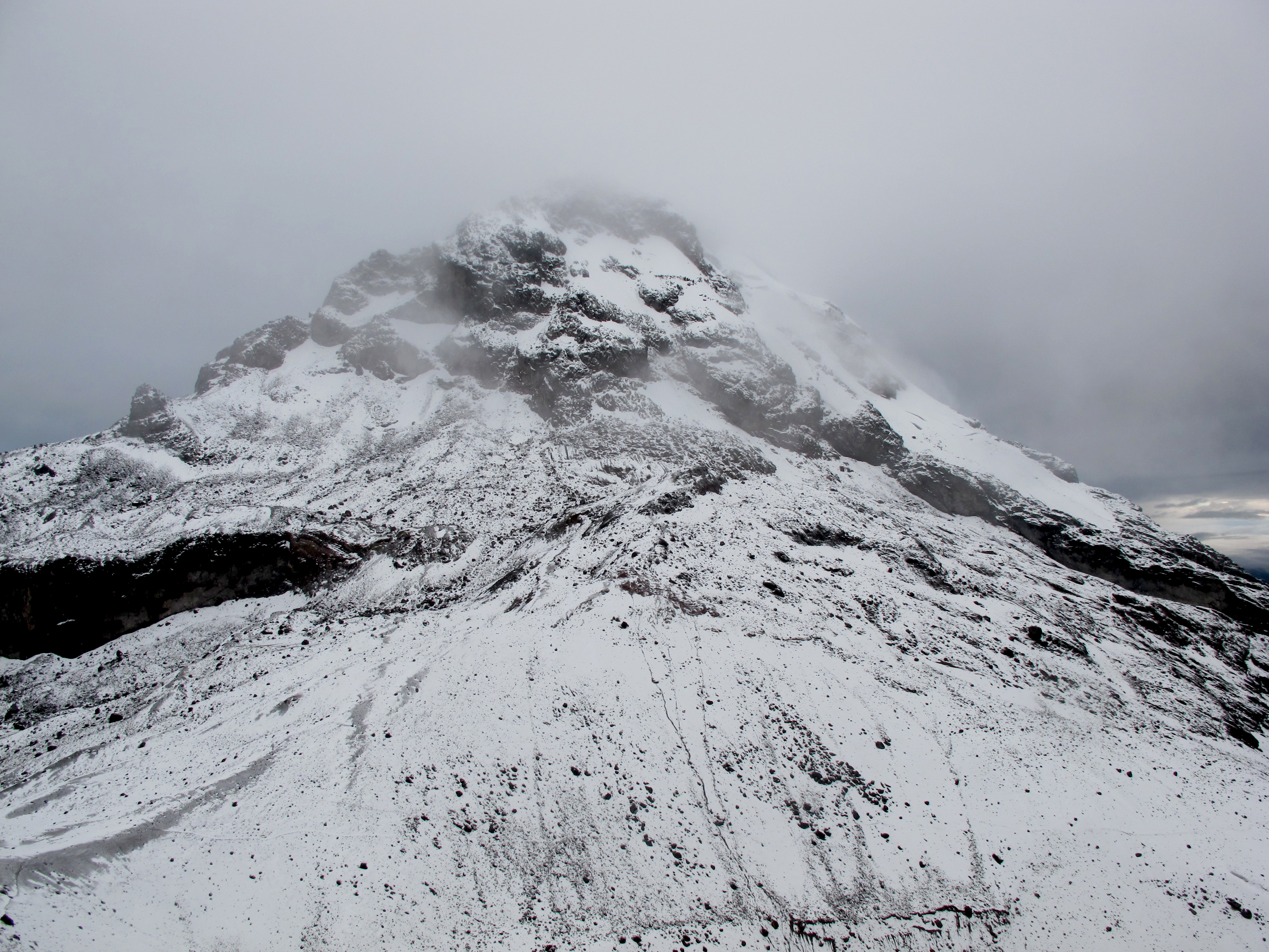 each Illinizas rise to very different, magic of nature have always surprises you as sublime as this